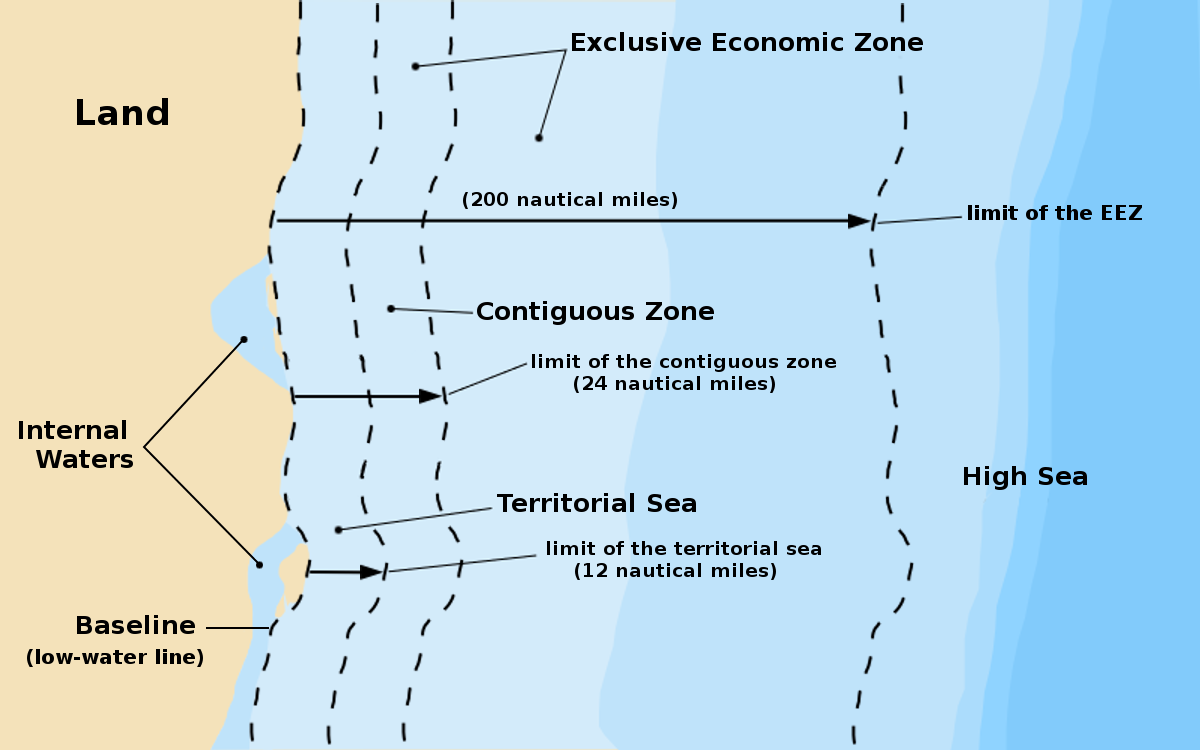 Sea areas according to United Nations Convention on the Law of the Sea